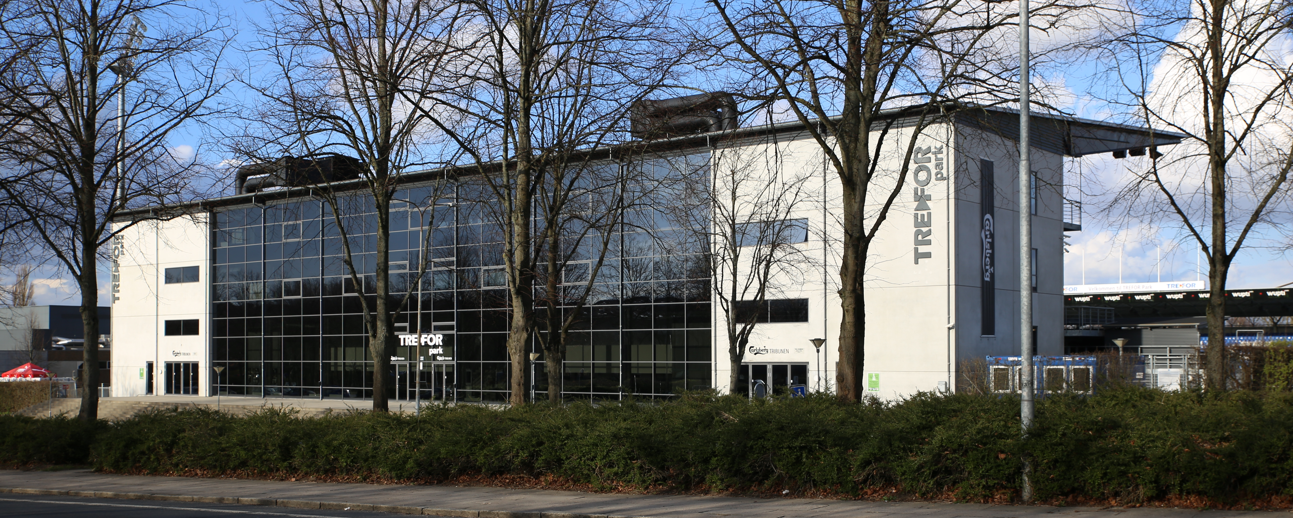 The Carlsberg stand at Odense Stadium, Odense, Denmark, seen from the Højstrupvej road.